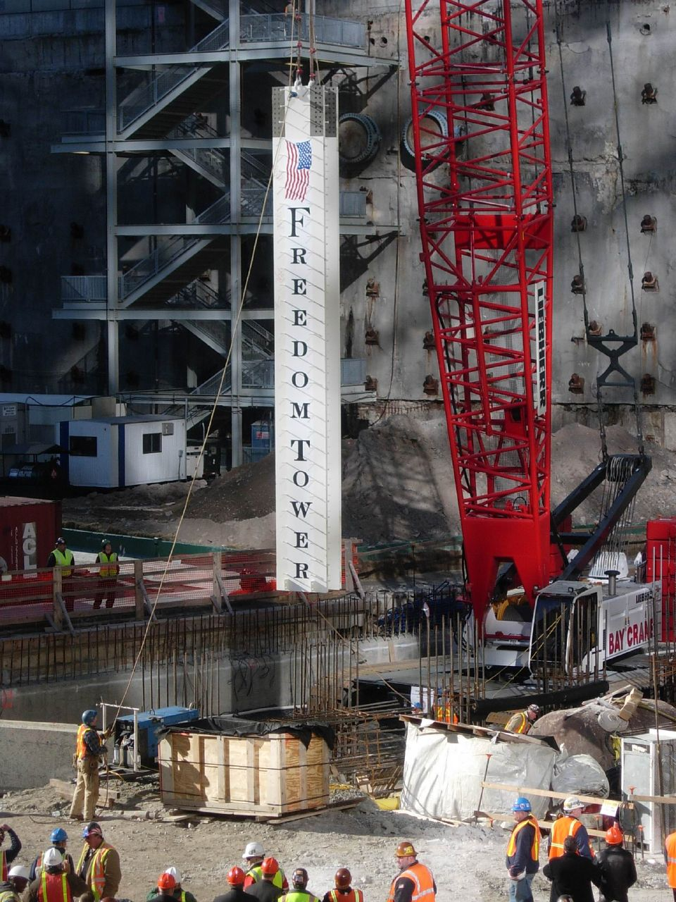 Groundbreaking of One WTC Made me smile